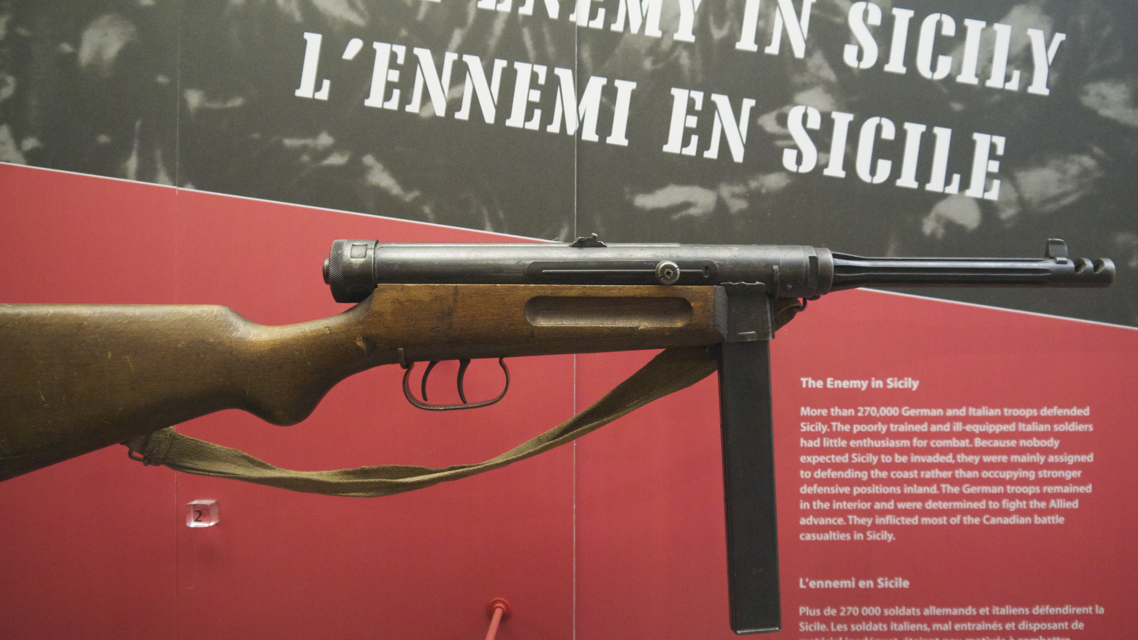 Beretta Model 38/42 displayed in Canadian War Museum.